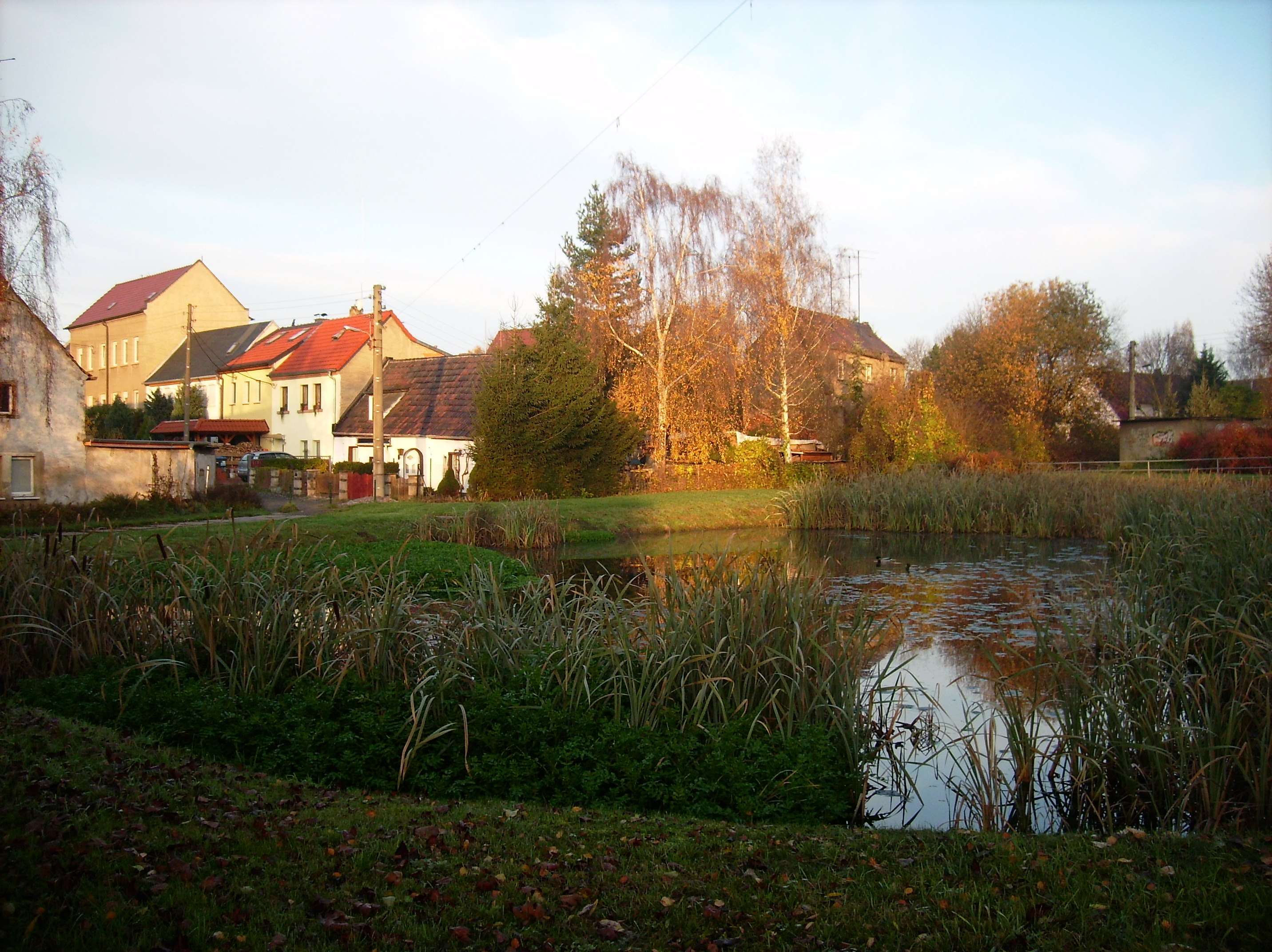 Morning sun at the pond in Dewitz (Taucha, Nordsachsen district, Saxony)